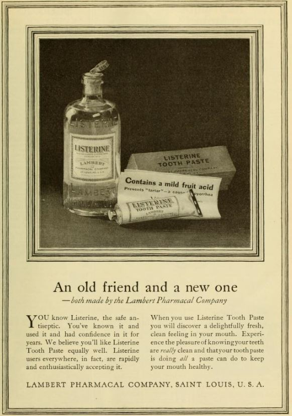 Ad for Listerine in the June 1921 Photoplay magazine.